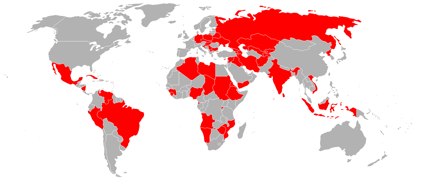 A blank map of the world as of 2008, with country outlines, for making country locator maps. This map uses the Robinson projection centered on the Greenwich Prime Meridian and includes various microstates and island nations. All territories indicated in the UN listing of territories and regions are exhibited.